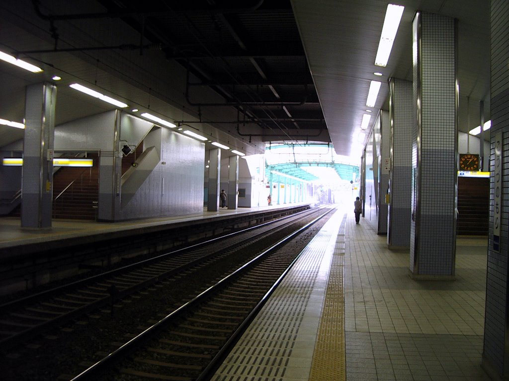 Kōzunomori Station on Keisei Main Line. This station is located at Narita, Chiba.